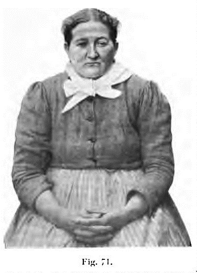 Atlas und Grundriss der Psychiatrie p.228 fig.71. Reused (cropped) in Szondi test in serie 6 image 7.